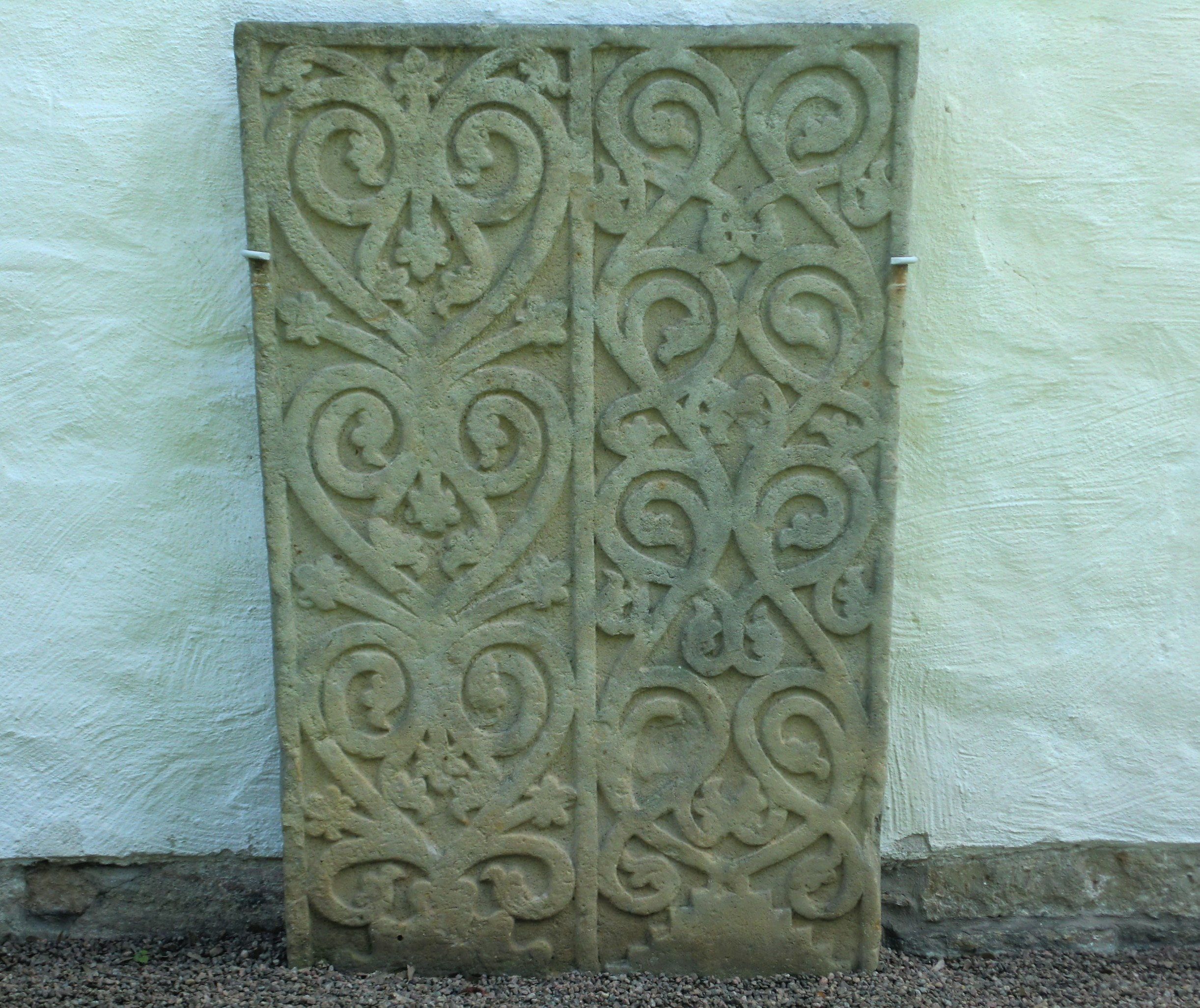 Double Tree of Life slab from Götene parish church, close to the mountain Kinnekulle, Sweden.